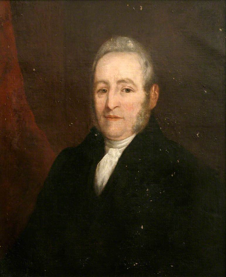 Portrait of Henry Trengrouse (1772–1854), inventor of the “rocket apparatus”, oil on canvas, 76 × 64 cm.